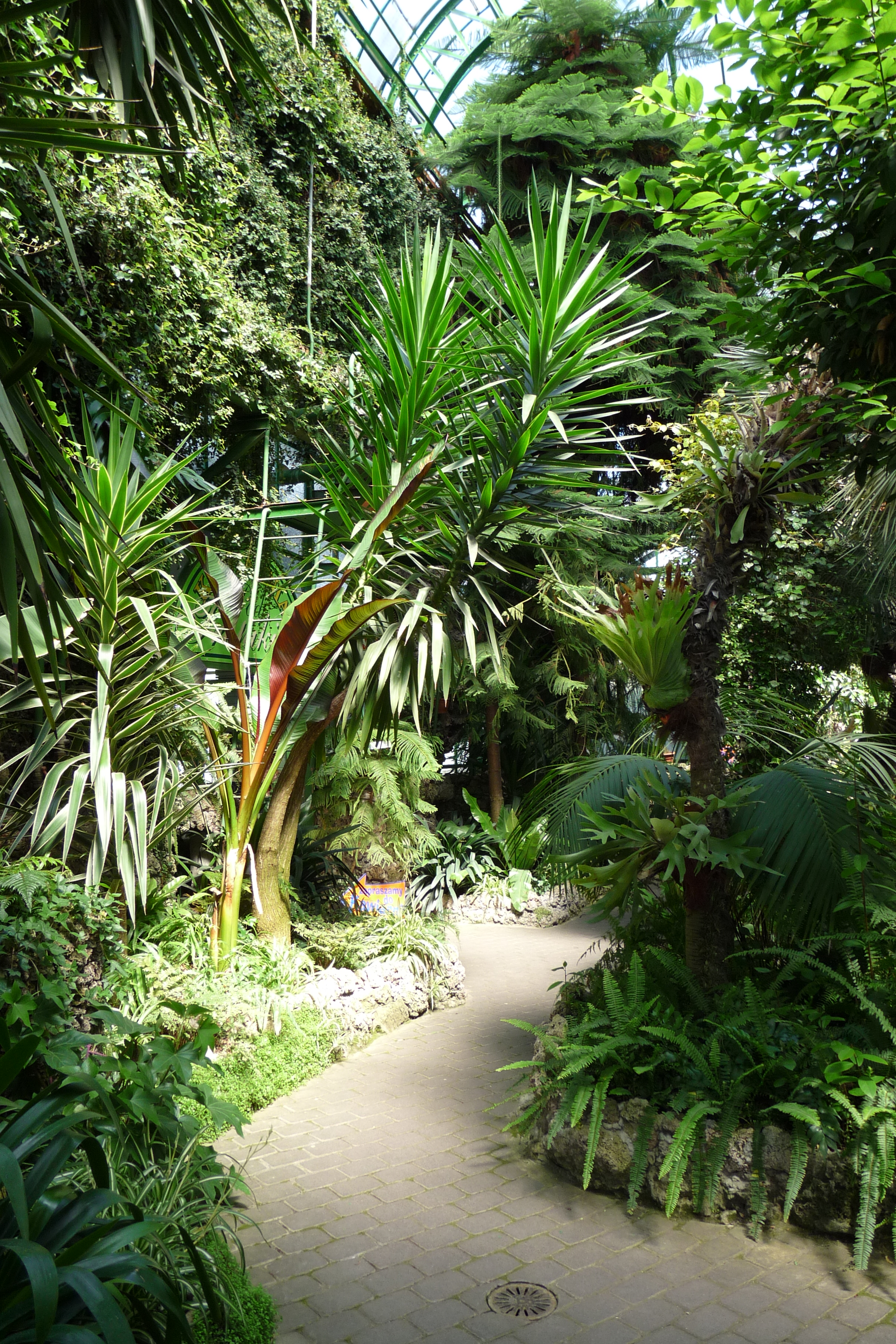 Palm House in Lubiechów